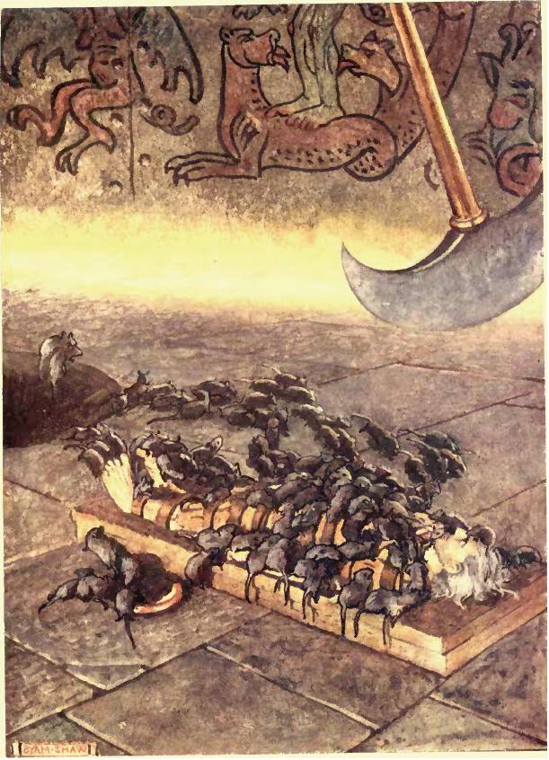 Byam Shaw's illustration for Poe's The Pit and the Pendulum in "Selected Tales of Mystery" (London : Sidgwick & Jackson, 1909) on the page to face p. 190 with caption "They swarmed upon me in ever-accumulating heaps"